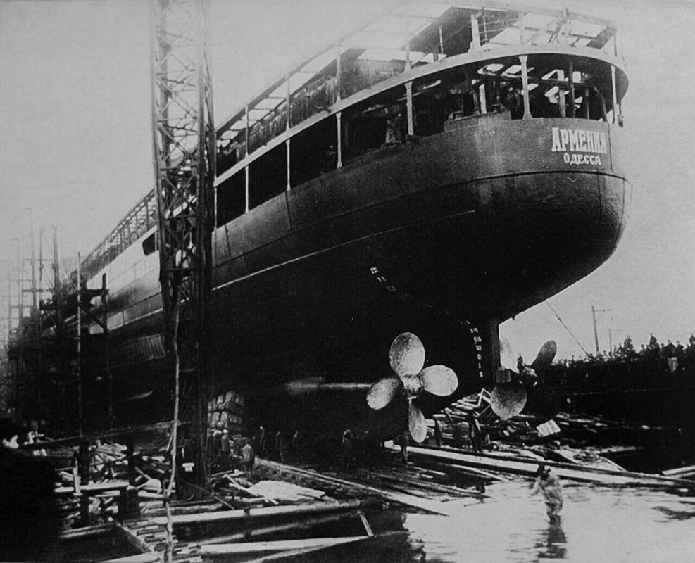 Ship Armenia on ship yard